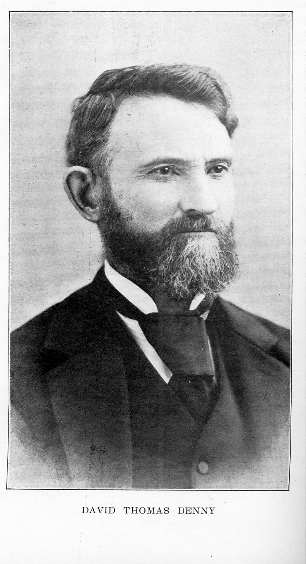 A photo of David T. Denny ca. 1880